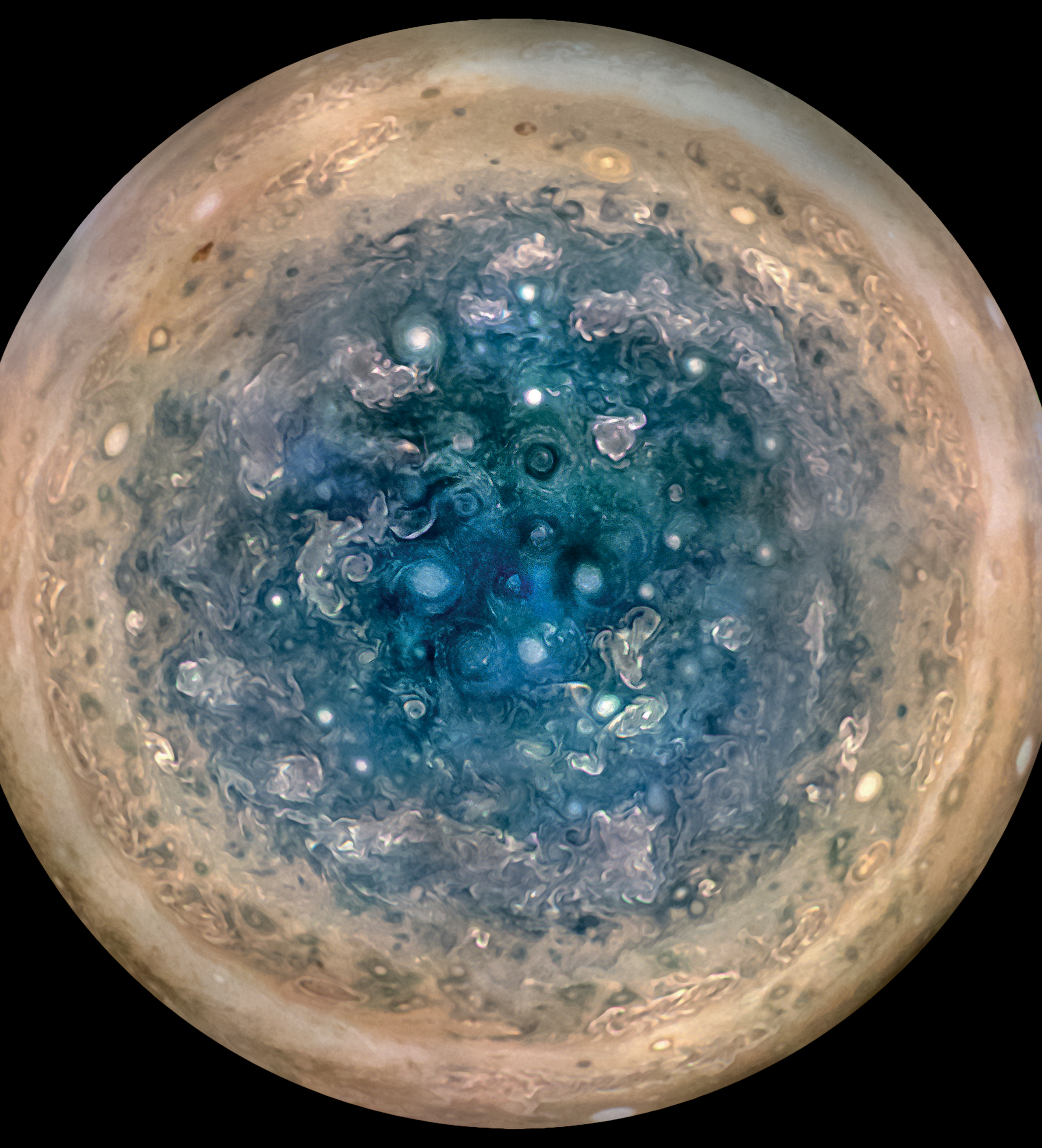 PIA21641: Southern Storms - This image shows Jupiter's south pole, as seen by NASA's Juno spacecraft from an altitude of 32,000 miles (52,000 kilometers). The oval features are cyclones, up to 600 miles (1,000 kilometers) in diameter. Multiple images taken with the JunoCam instrument on three separate orbits were combined to show all areas in daylight, enhanced color, and stereographic projection.